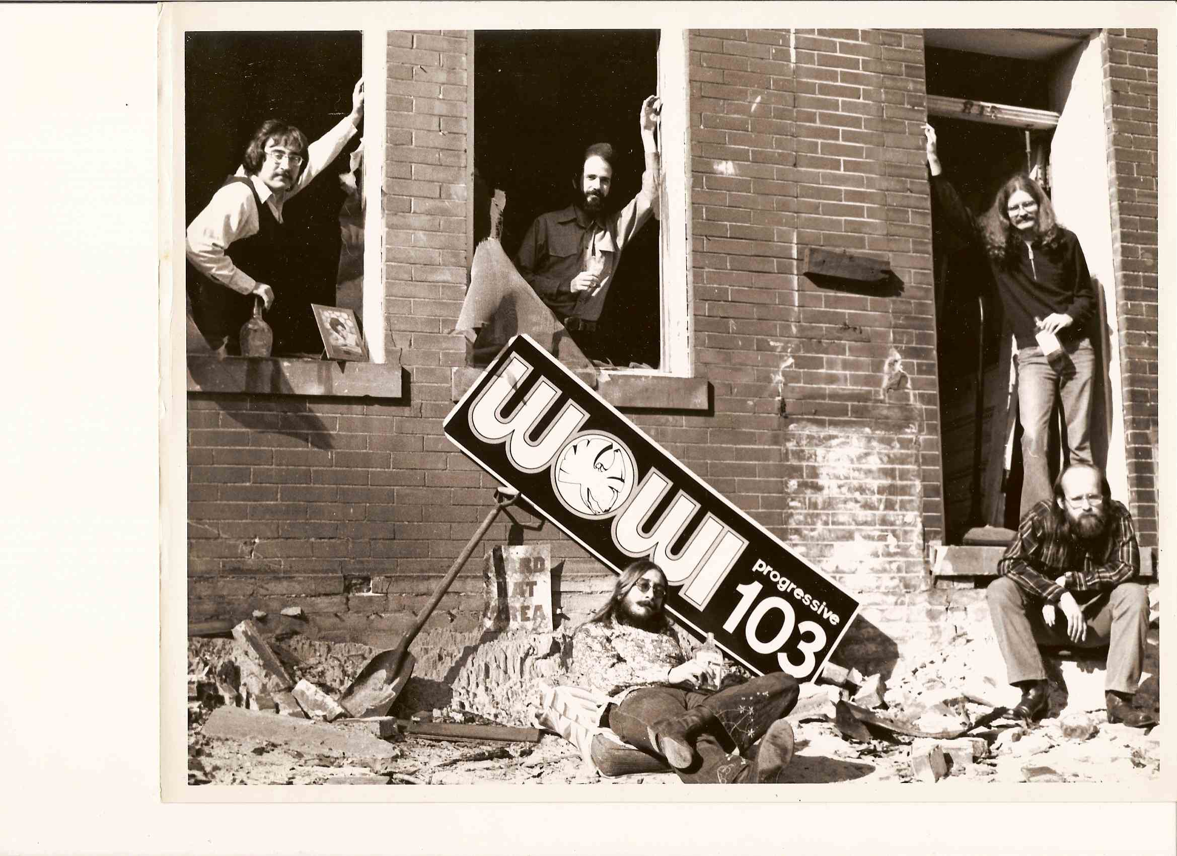 Progressive WOWI-FM 1970-75 - On the 'road closed' barrier across the street and slightly north of the station (l-r) Bruce Garraway, Randy Spiers, Larry Dinger in his favorite photo pose, Larry Allen & Dave 'But You Can Call Me Nic' Nichols.